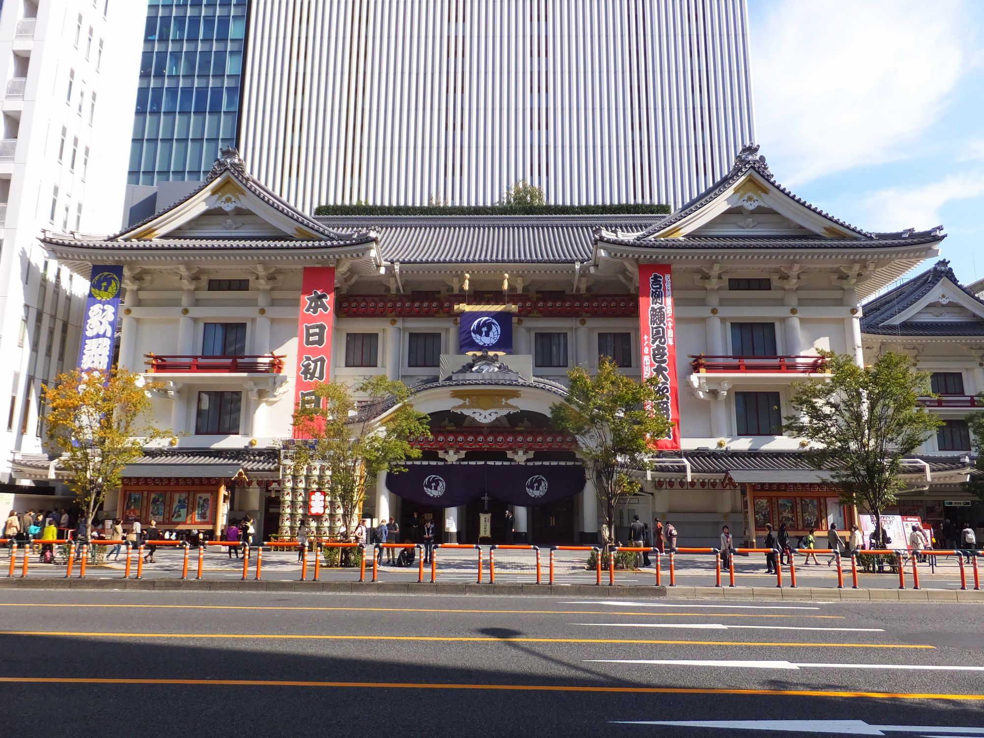 Kabuki-za theatre in Ginza, Tokyo